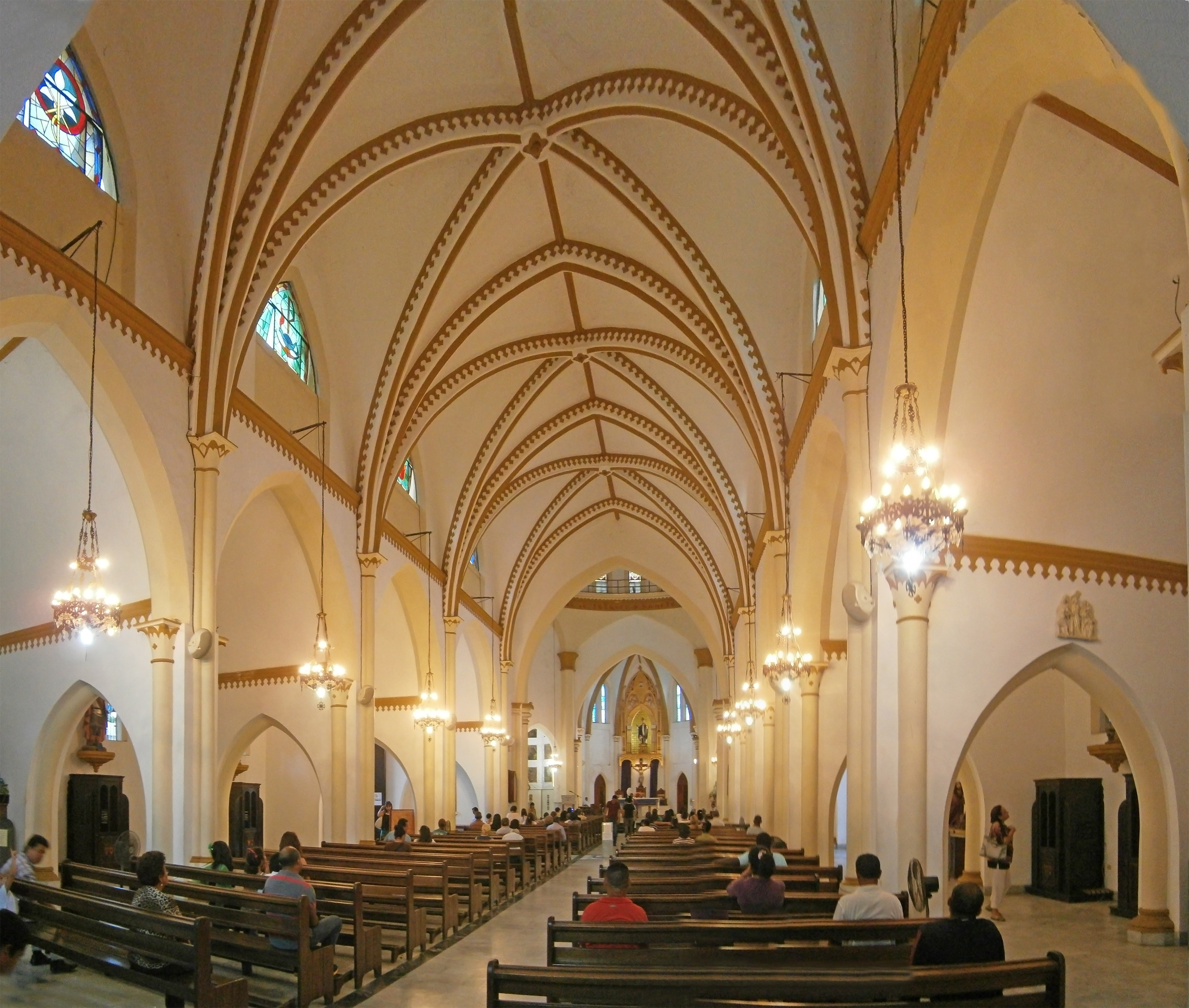 Nicolas de Bari Church